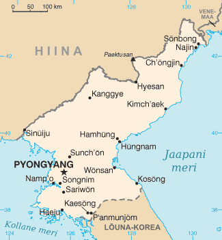 Map of North Korea (Estonian)